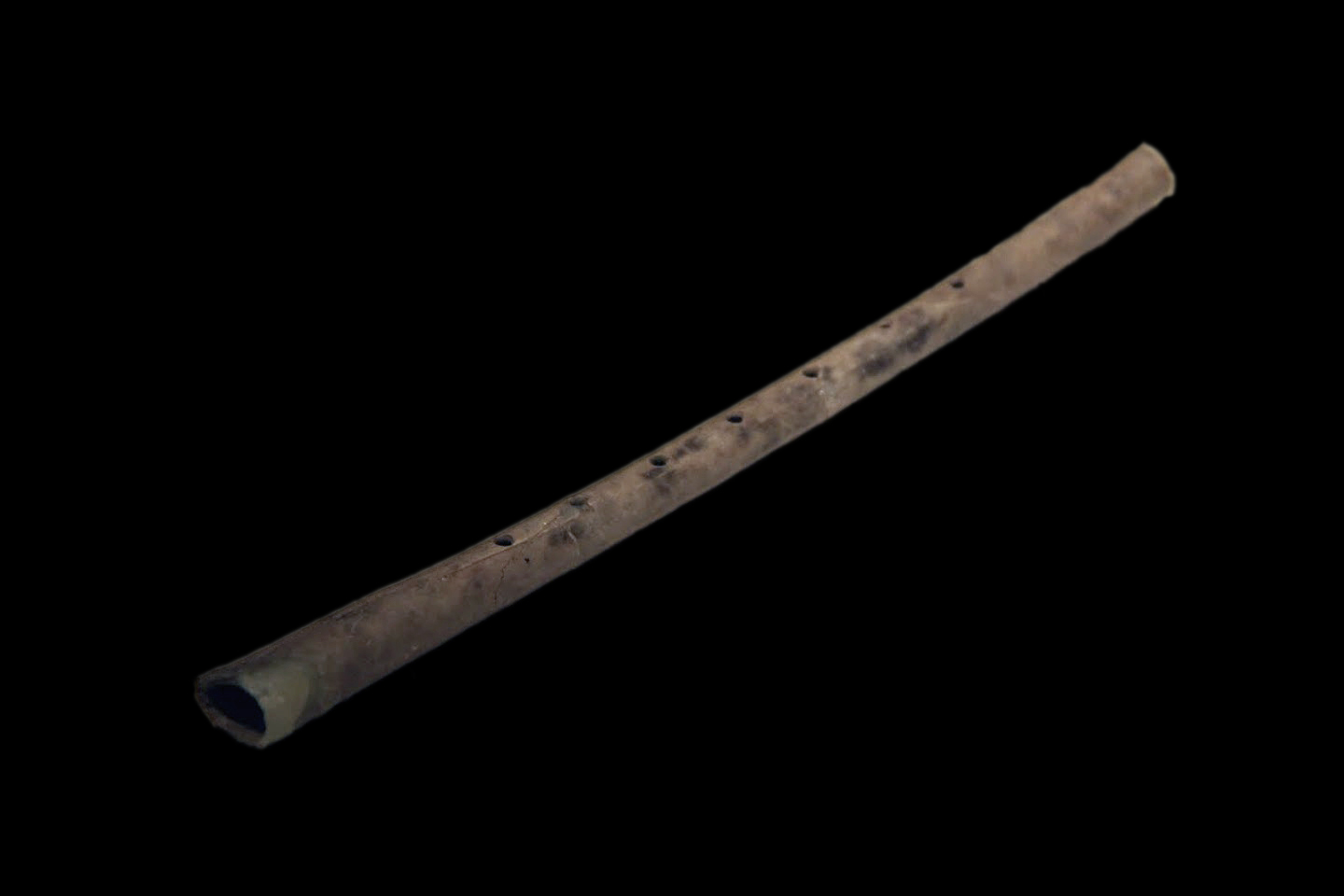 Neolithic bone flute, Peiligang Culture, Wuyang, Henan, 1987, earliest known musical instrumen. National Museum of China, Beijing